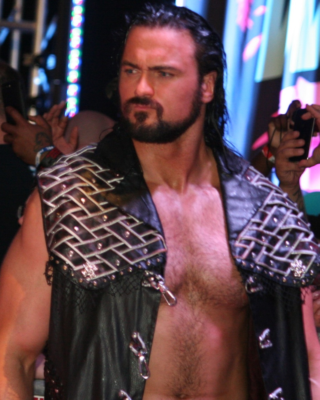 Professional wrestler Drew Galloway making his entrance in March 2017